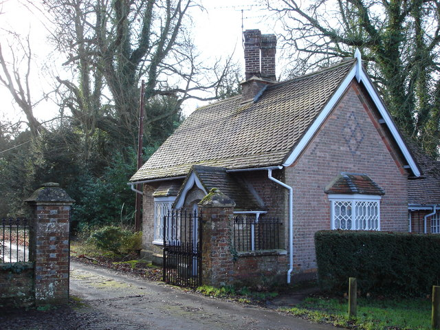 Gatehouse to St Giles's House, near to Wimborne st Giles, Dorset, Great Britain.